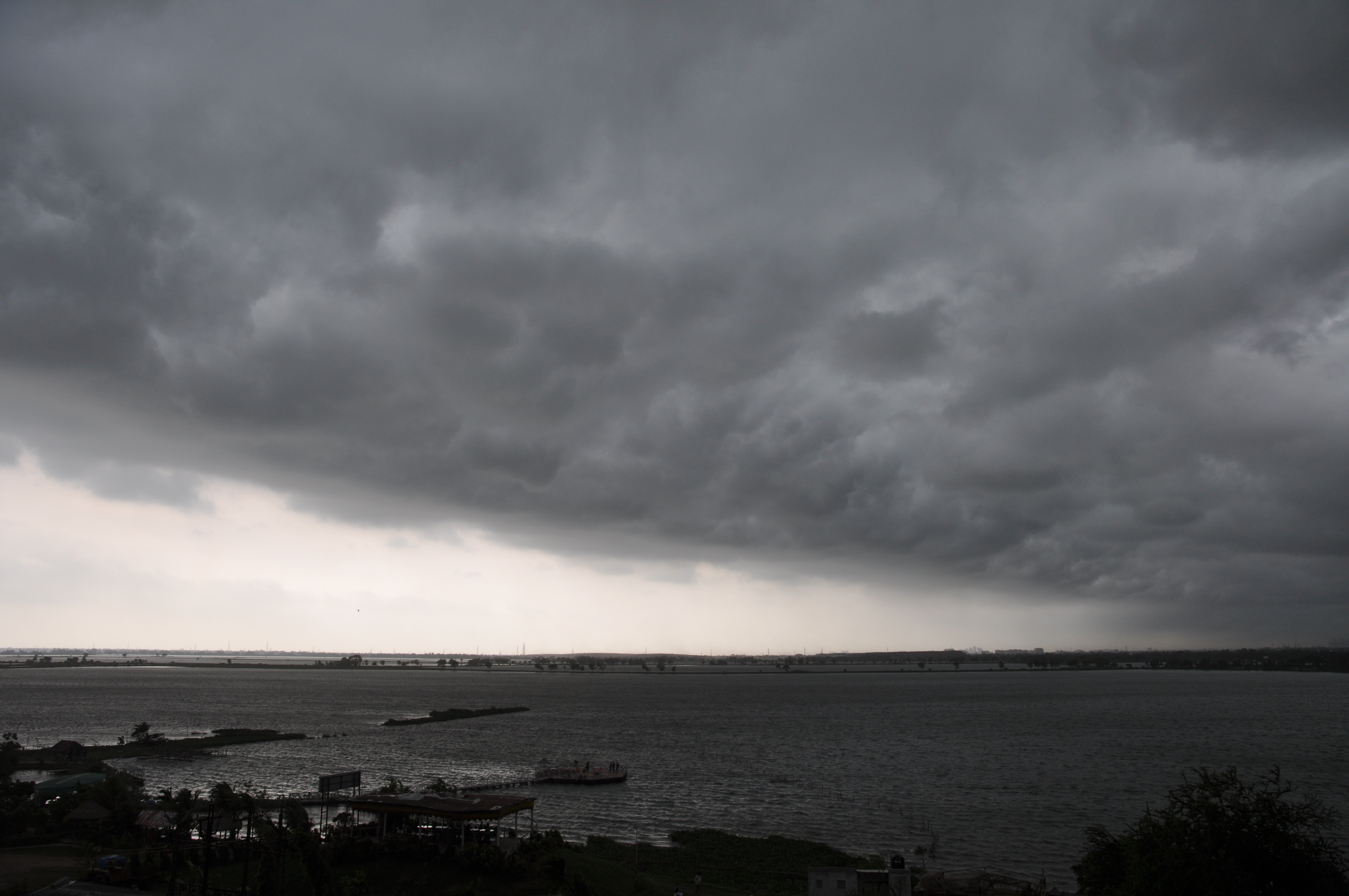 Hervey clouds formed during storm from north-west to south-east, at monsoon, over Salt Lake, Calcutta